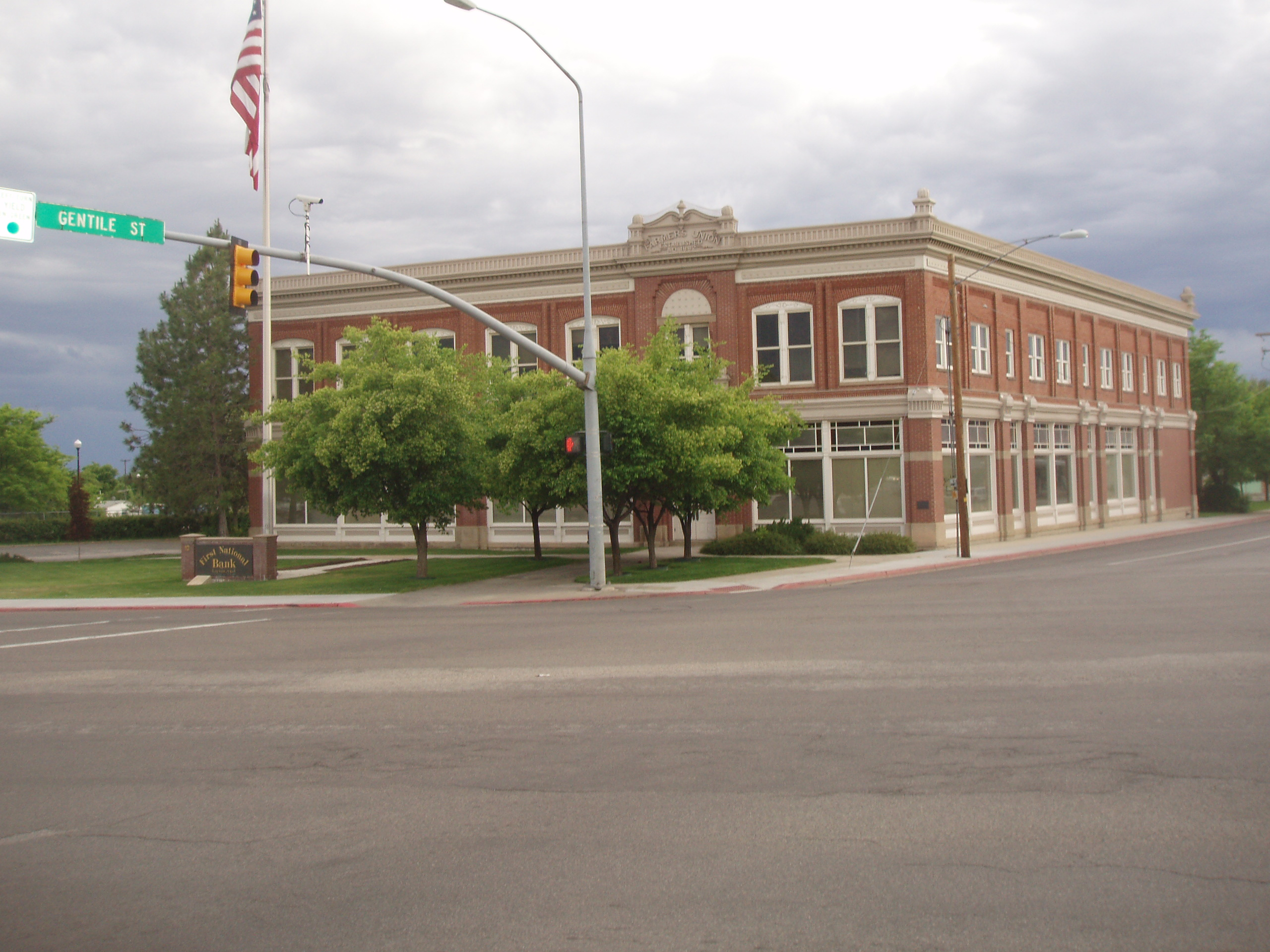 The Farmer's Union Building, a historic building in Layton, Utah, United States, now houses the main branch of the First National Bank of Layton.